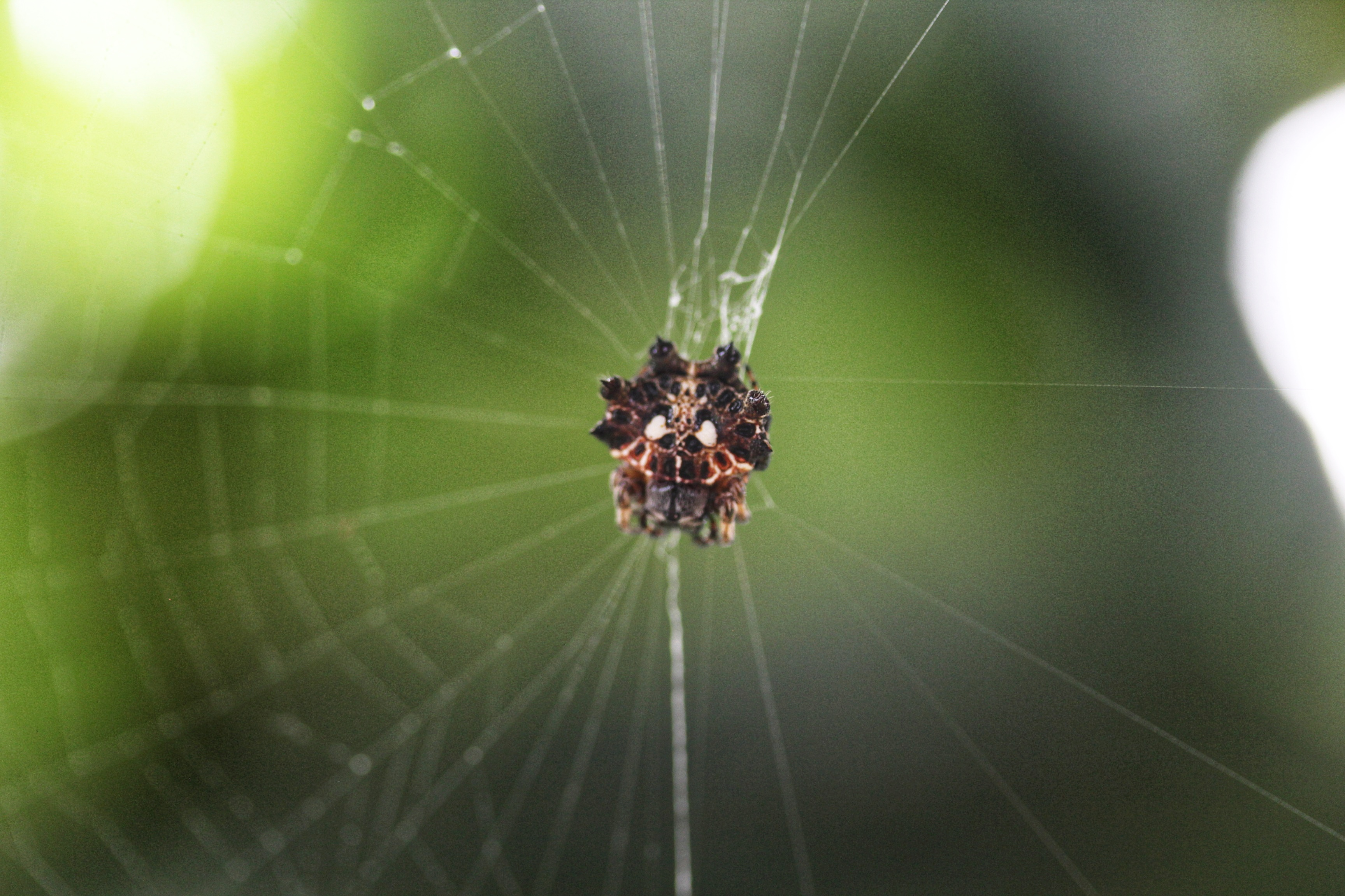 Spider web in Mt. Isarog, Curry, Pili, Camarines Sur, Philippines